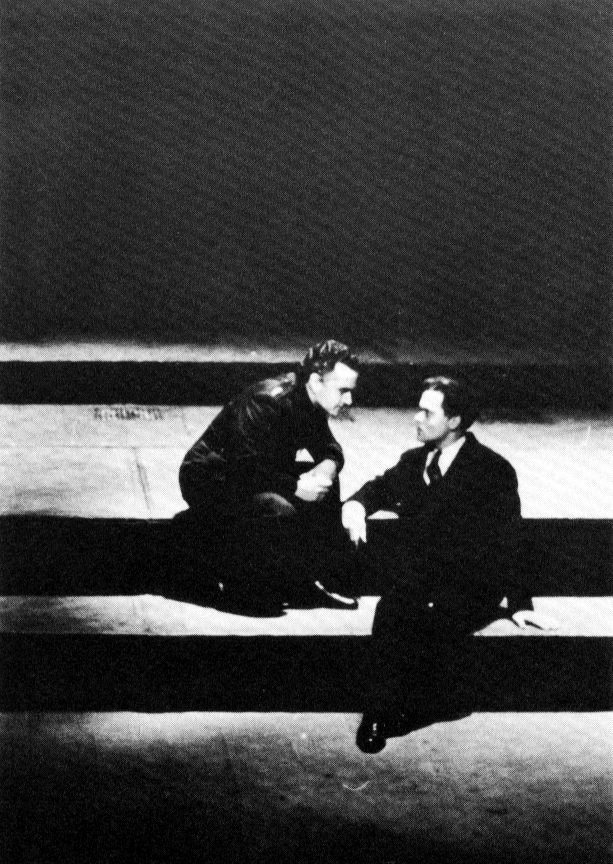 Photograph of Martin Gabel (left, as Cassius) and Orson Welles (Brutus) in the Mercury Theatre production Caesar Act I, Scene 2